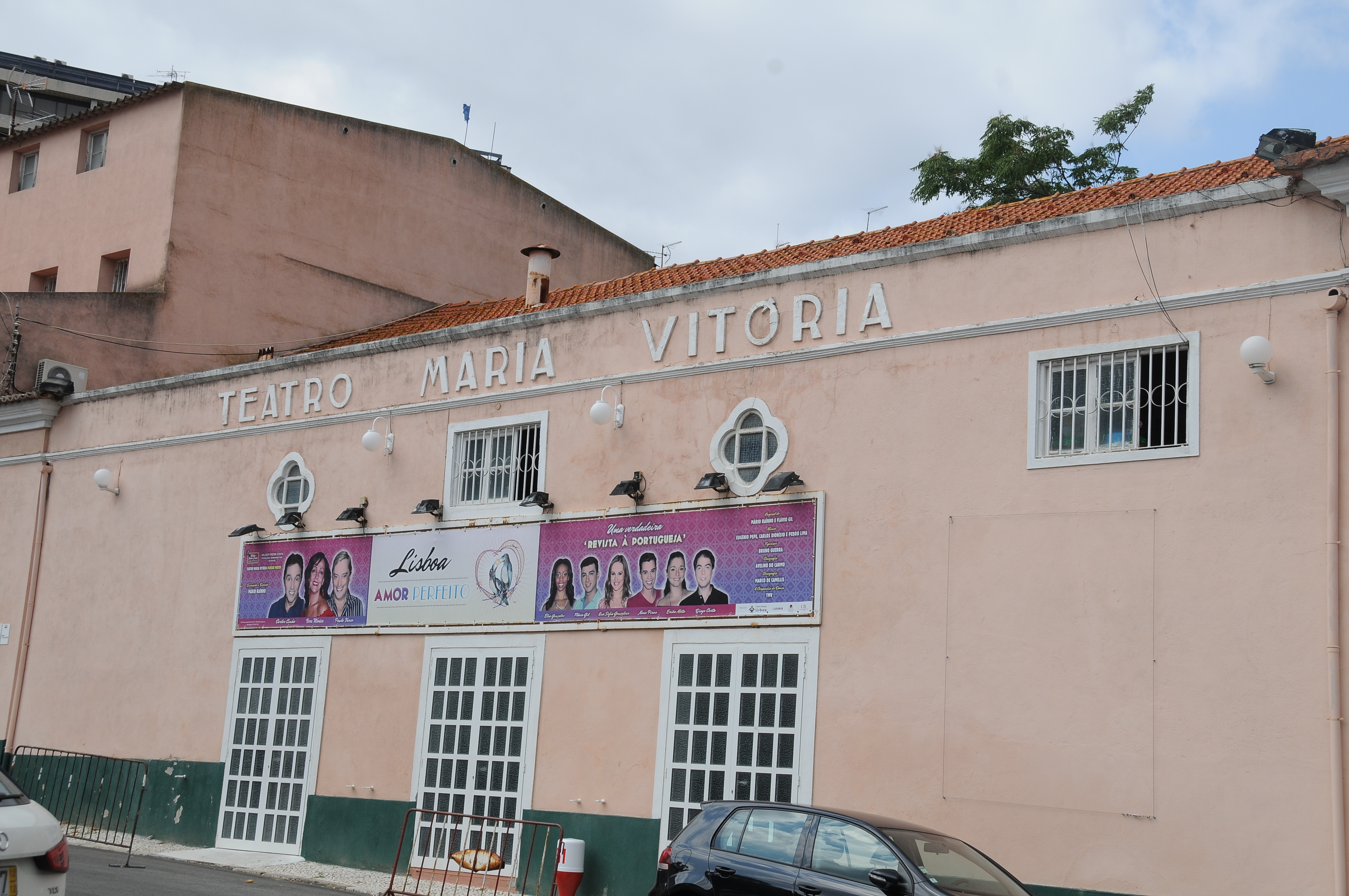 Theatre Maria Vitoria in Parque Mayer, Lisbon, Portugal